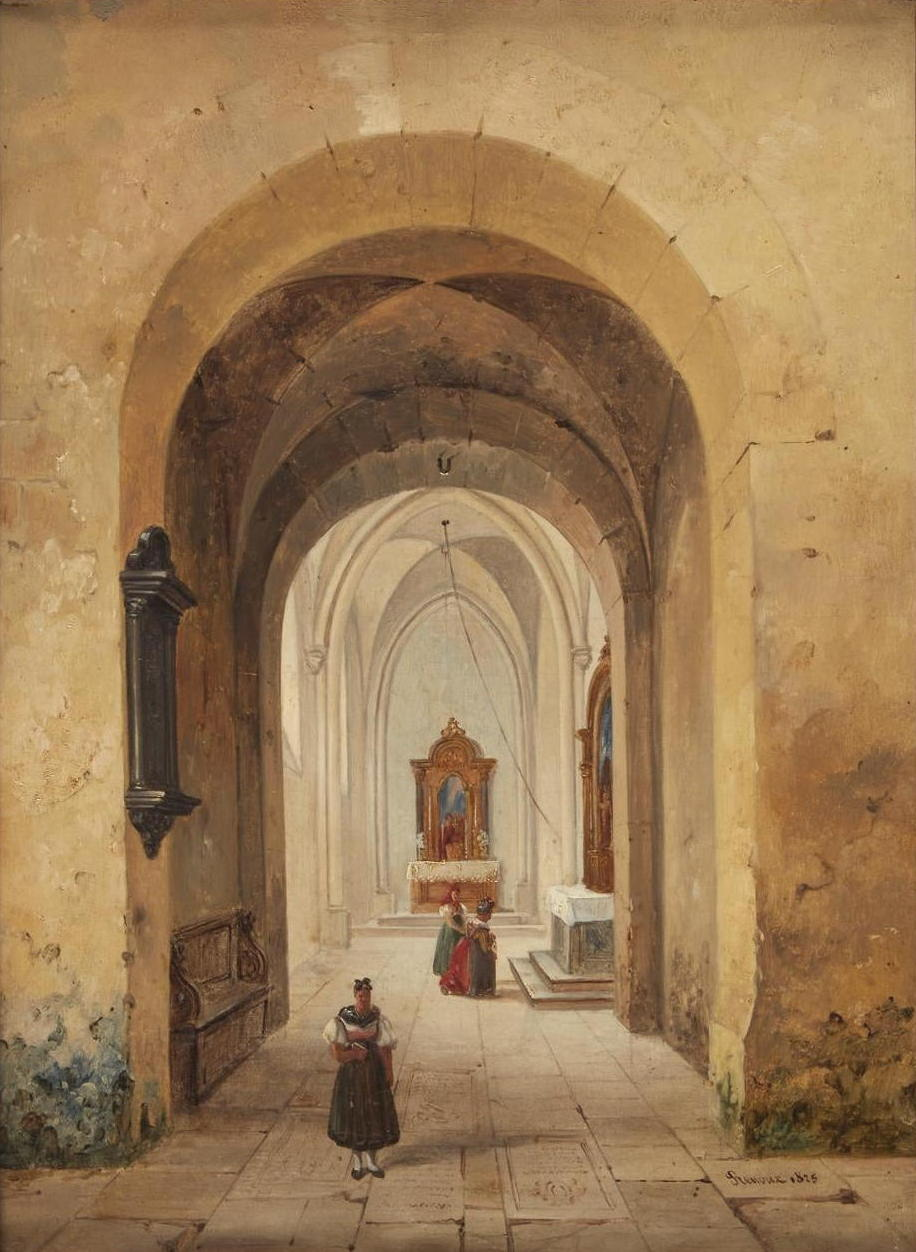 Charles-Caïus Renoux, "Italian Cloister" (1825, private collection). Possibly part of Renoux's series of paintings depicting the Seven Sacraments of the Catholic Church (prayer), originally owned by Alexandre du Sommerard.